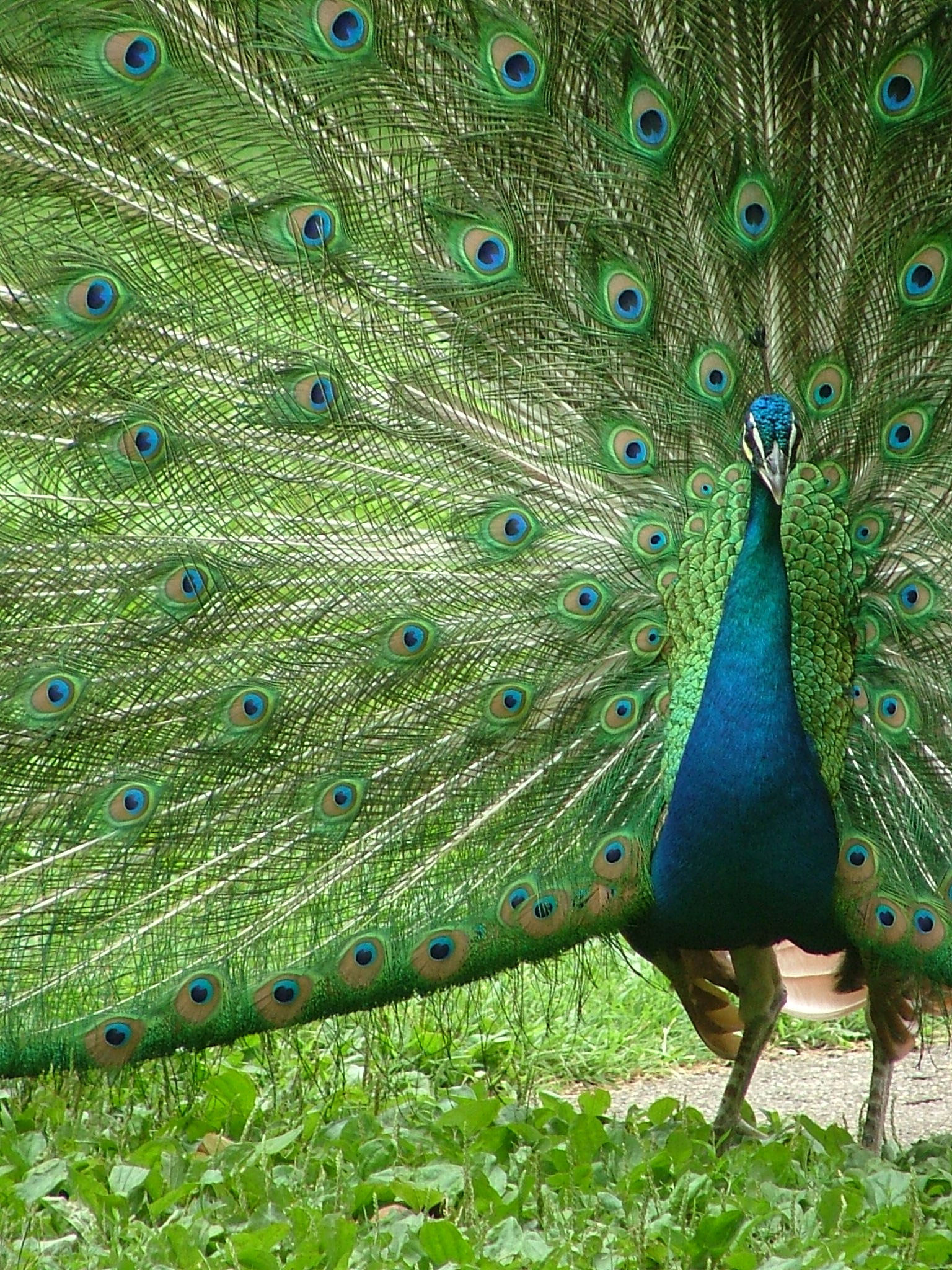 A peacock with outspread plumes.